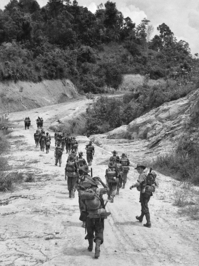 AWM Caption: BRUNEI BAY AREA, NORTH BORNEO. JUNE 1945. MEMBERS OF B COMPANY, 2/2 MACHINE GUN BATTALION, MOVING ALONG THE ROAD FROM BROOKETON TO BRUNEI DURING THE OBOE 6 OPERATION.